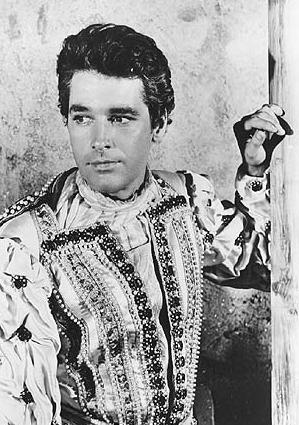 Imsge of actor Kerwin Matthews